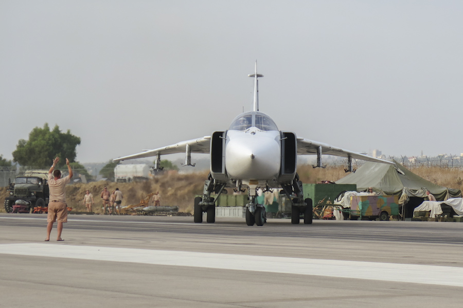 Sukhoi Su-24 at Latakia